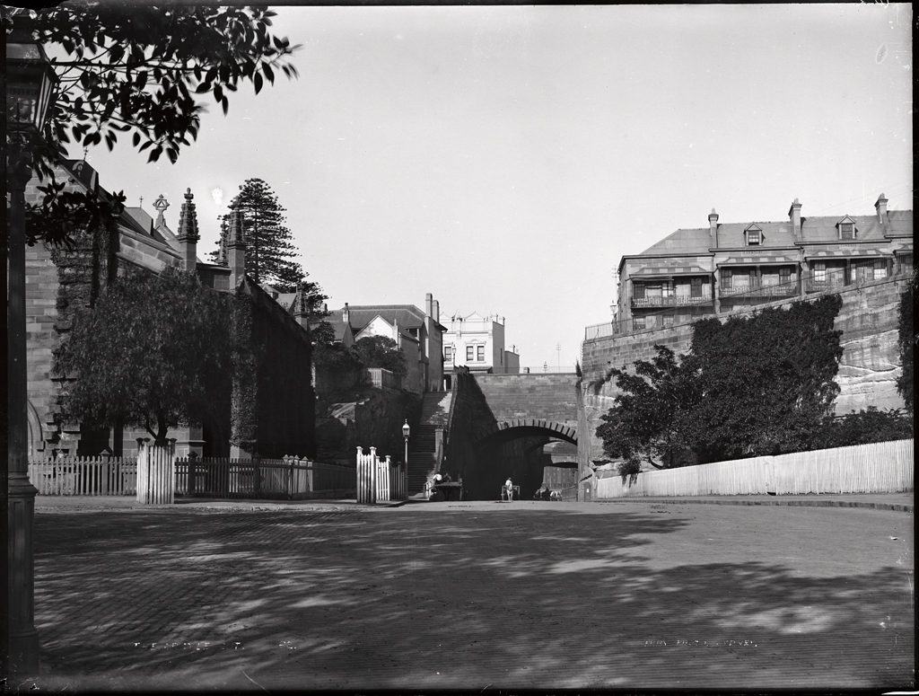 'Sydney City' Pictures from The Powerhouse Museum